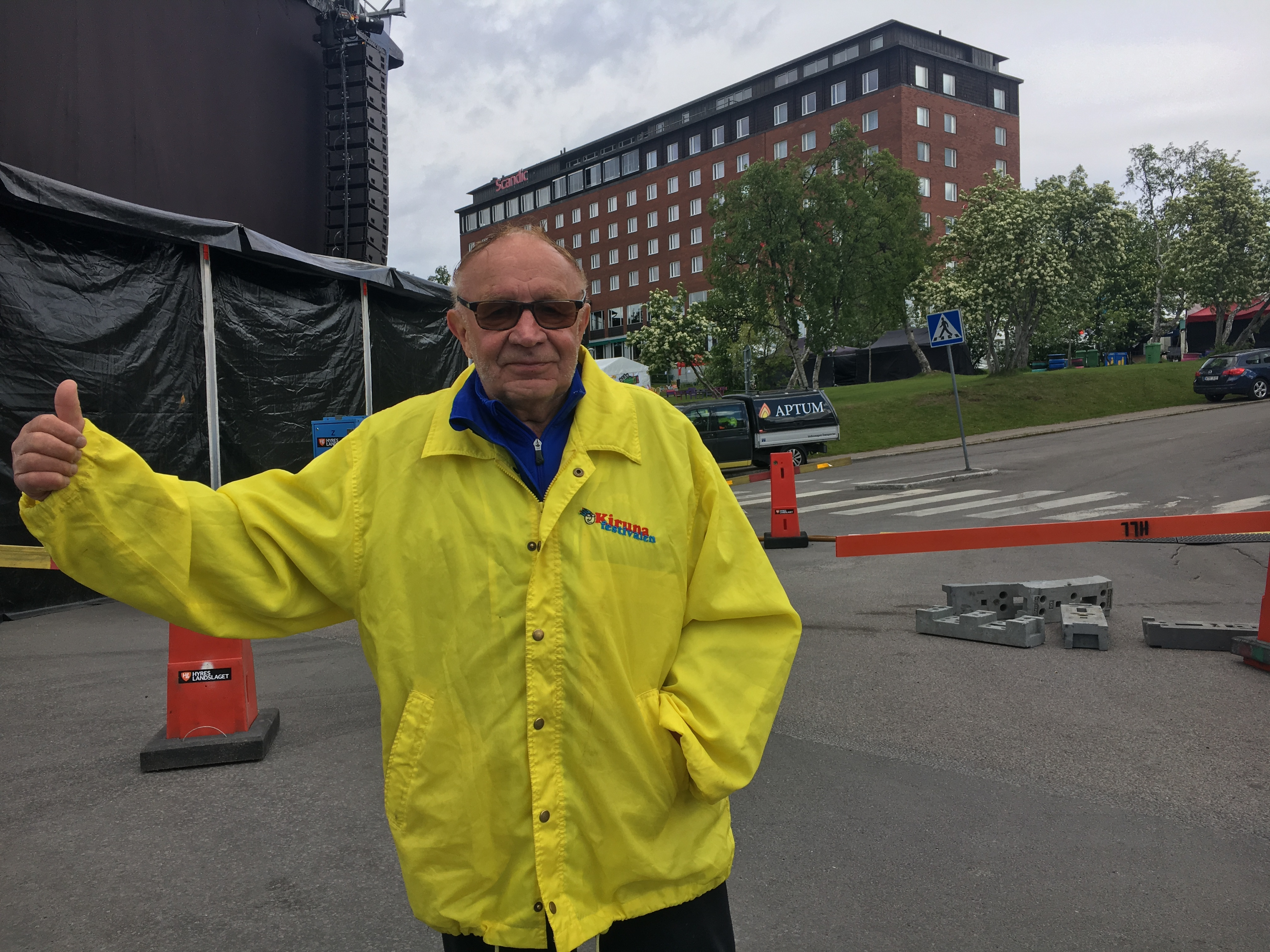 Börje "Parka-Börje" Andersson during Kirunafestivalen 2019